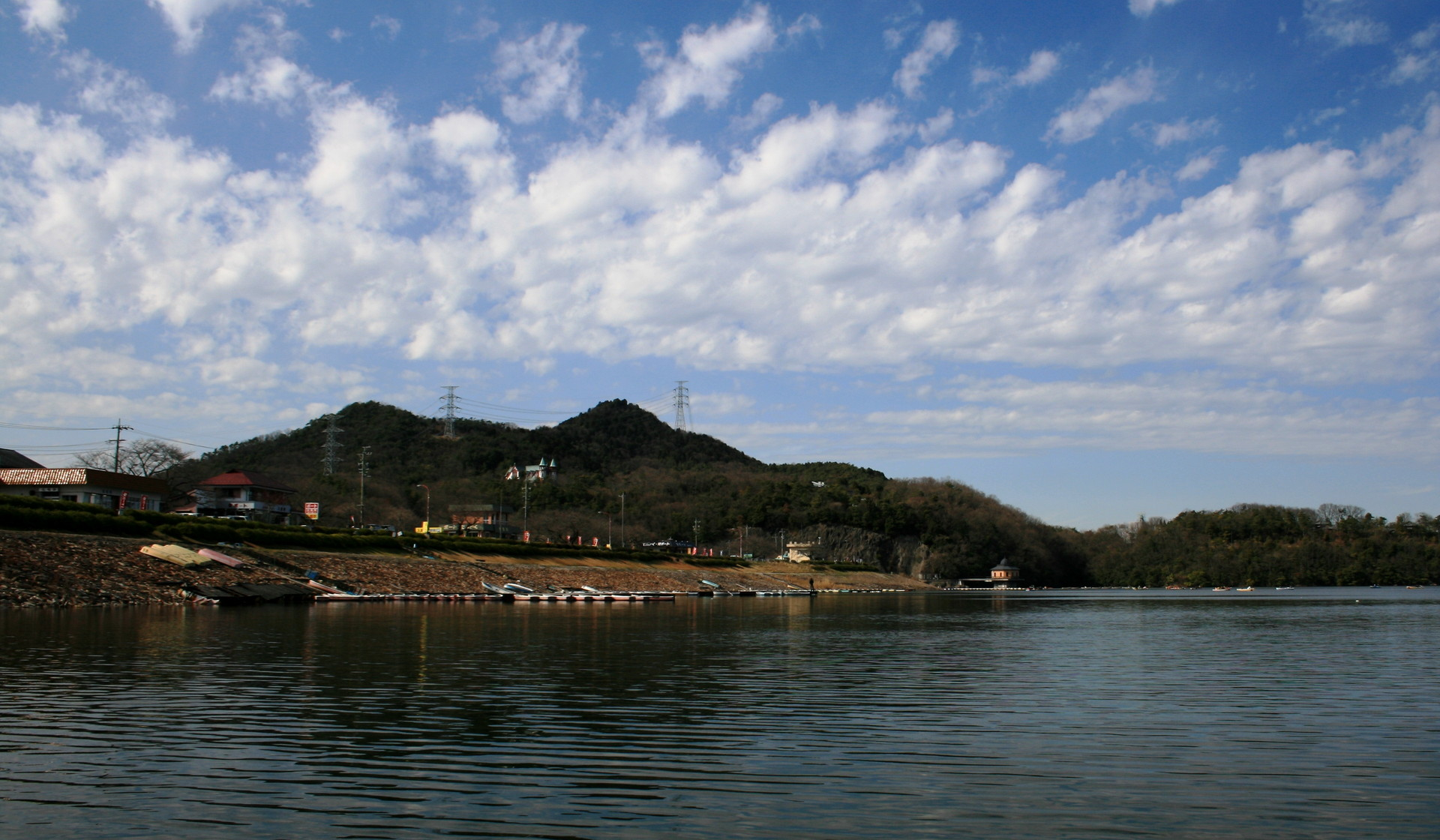 Owari Fuji from Lake Iruka, Inuyama, Aichi prefecture, Japan.